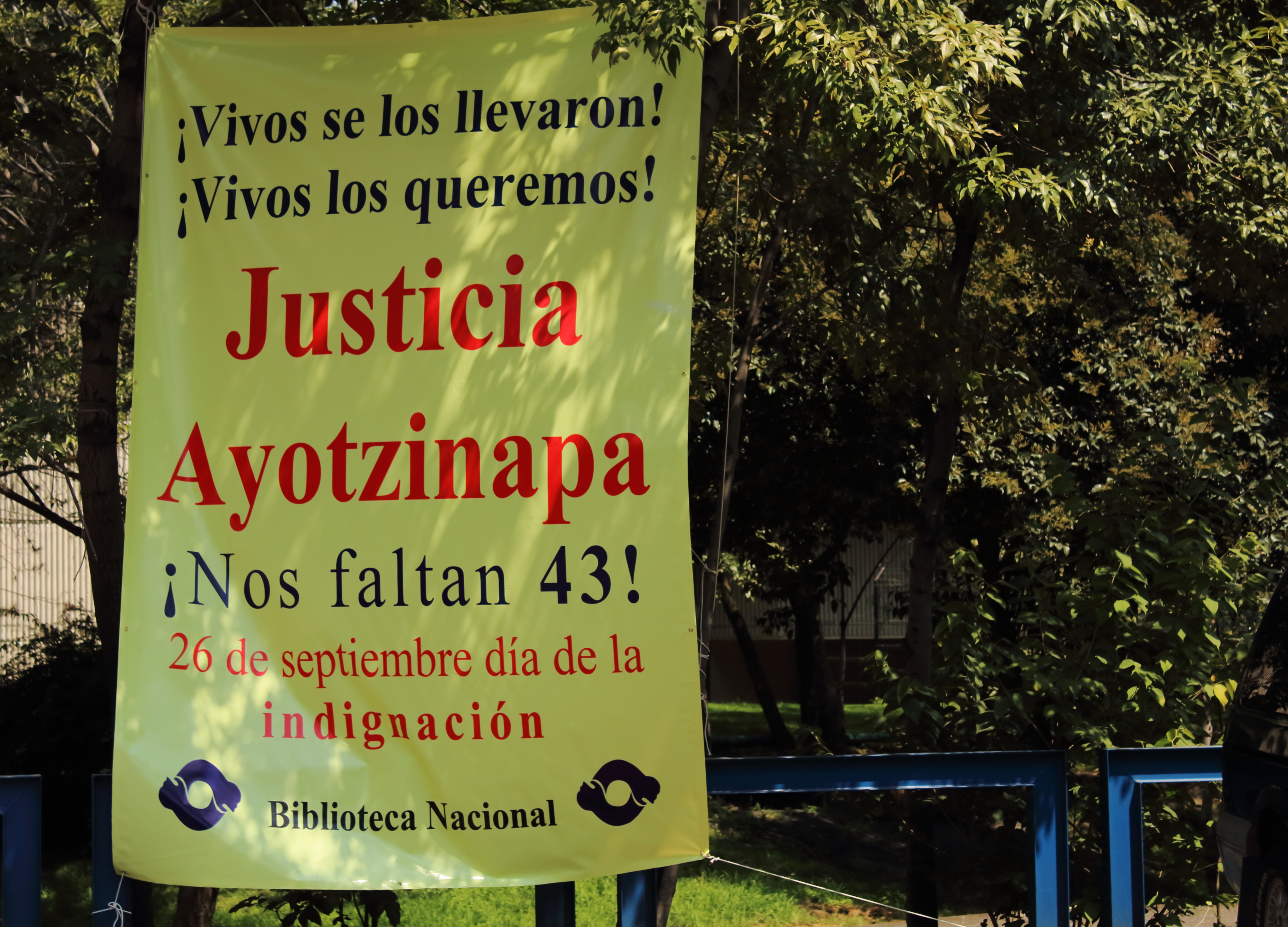 Banner at the National Library of Mexico for justice in the case of forced disappearance in Ayotzinapa, Guerrero.